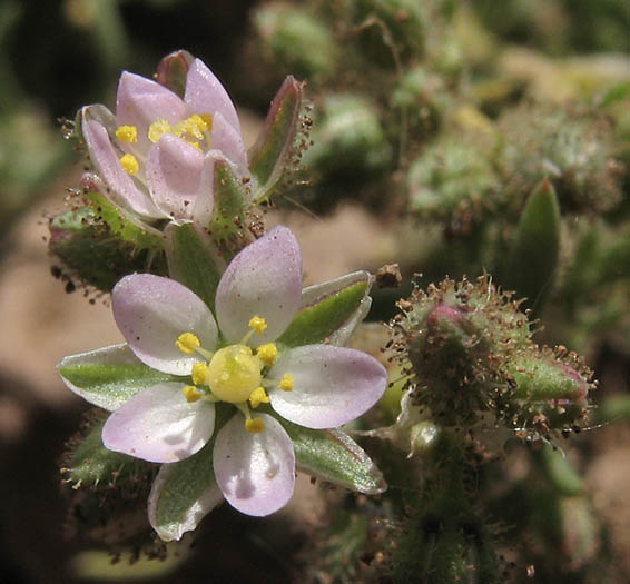 Spergularia bocconei, or bocconi, at Circle X Ranch: Mishe Mokwa Trail trailhead parking lot, Santa Monica Mountains National Recreation Area, CA, USA. NPS photo, no copyright.